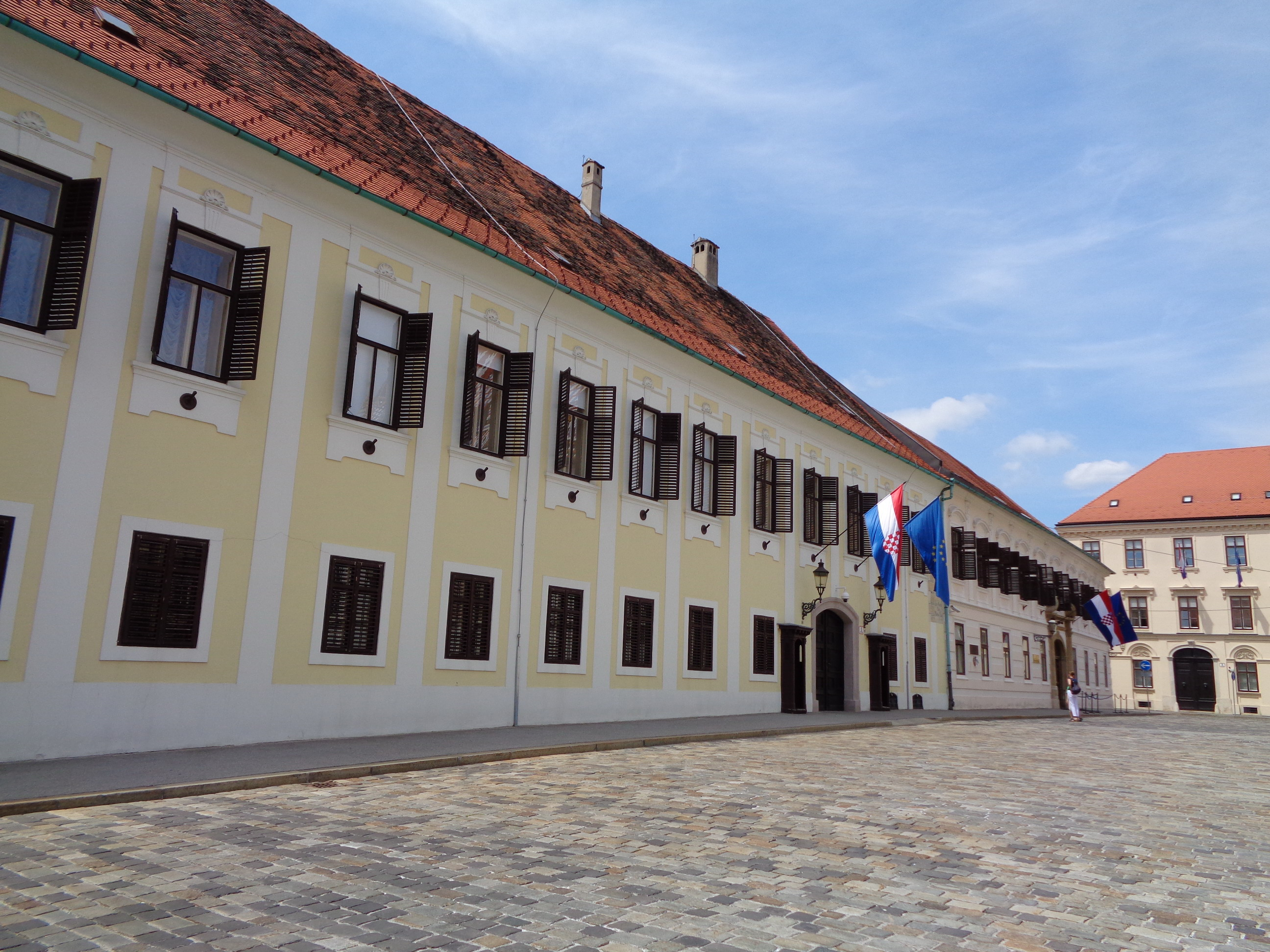 Banski dvori (Ban's court), historical official residence of the Ban (Viceroy) of Croatia, and current seat of the Croatian Government in Zagreb, Croatia